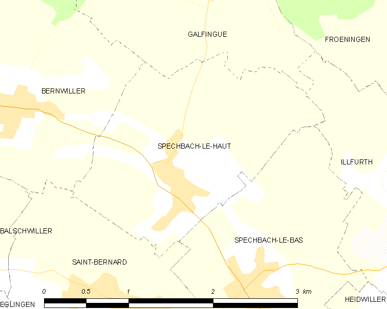 Map of French municipality